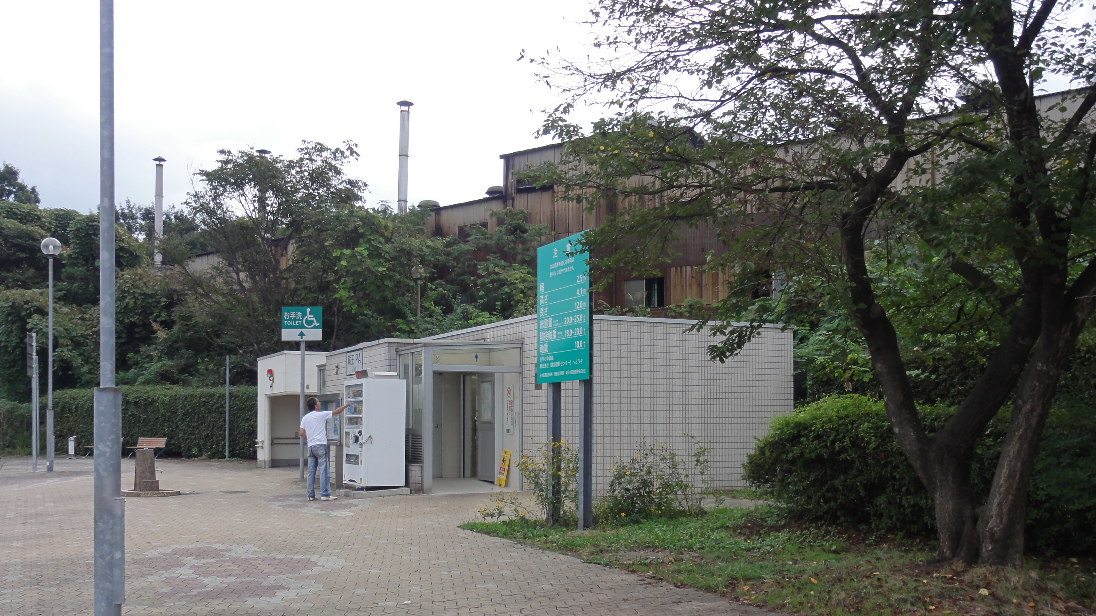 Zao Paking Area,Miyagi prefecture, Japan